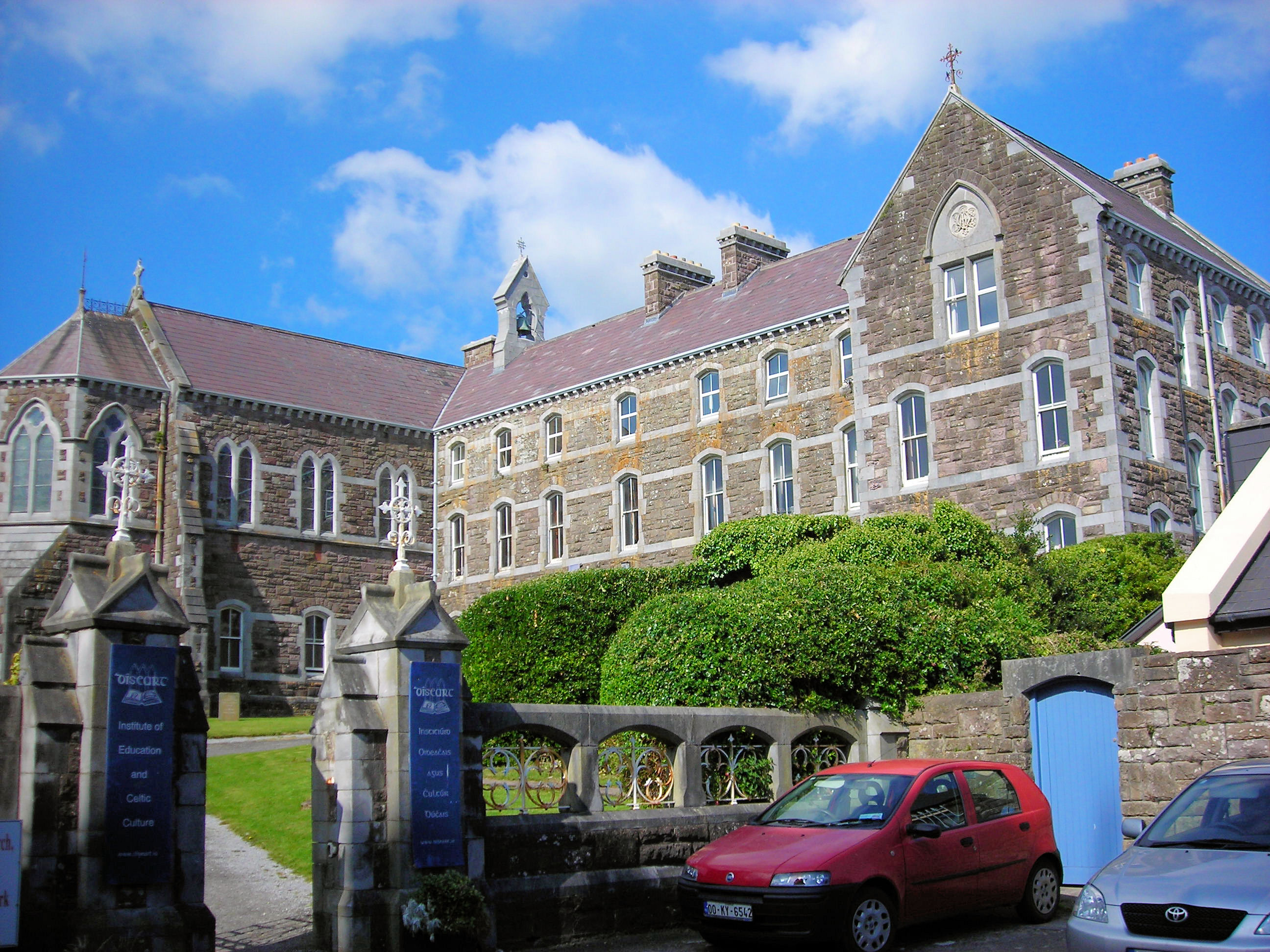 Institute of Education and Celtic Culture was founded in 1996 in the heart of Corca Dhuibhne - the Dingle Peninsula Gaeltacht (Irish speaking) and strives to promote research, courses and cultural activities in all areas of native and Celtic Culture including language, literature, art, laws, folklore, values, spirituality, history, music, archaeology and customs.